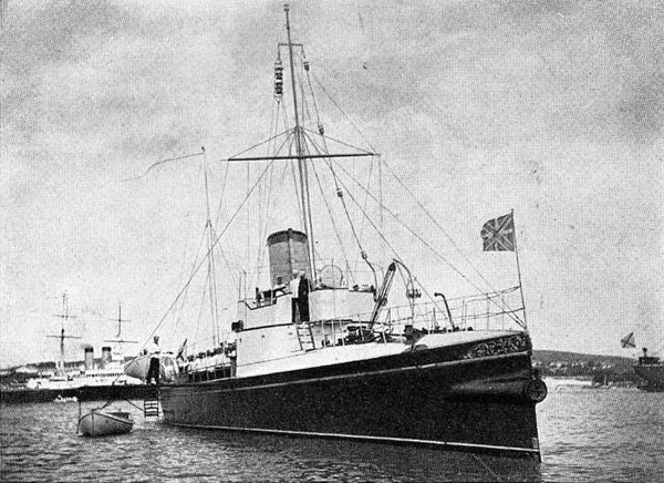 Imperial Russian torpedo cruiser Griden'.